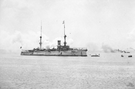 Photograph of the German armored cruiser SMS Fürst Bismarck, taken in Manila Harbor. Taken from the Australian War Memorial, here. Photo is stated to be in the public domain, as its copyright has expired.